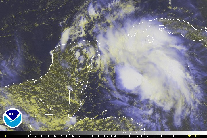 TS Dolly at 2p.m. on July 20